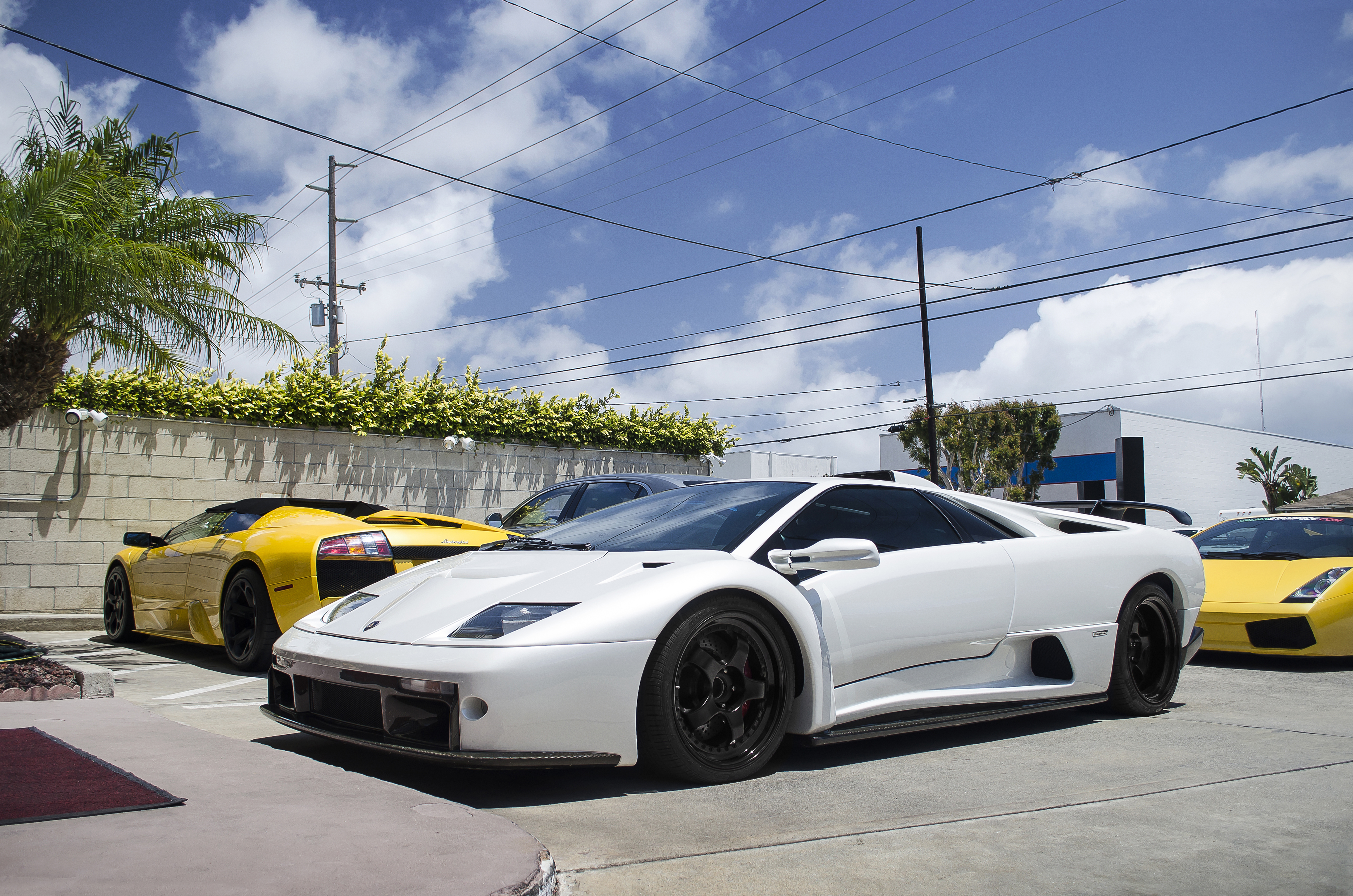 Pearl White Lamborghini Diablo GT 1 of 80.